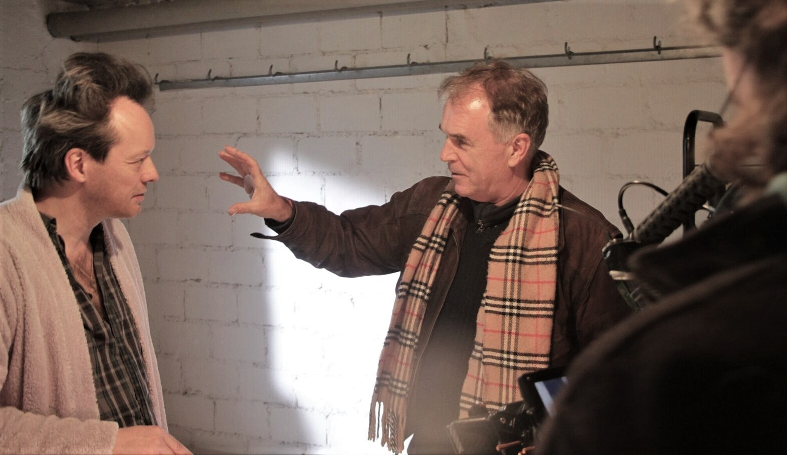 Filming of PhonY in Zurich/Switzerland, by on-set still photographer Rony Ulmann, Feb 1, 2018. Roger Steinmann directs Pascal Ulli, at Camera Brian D. Goff